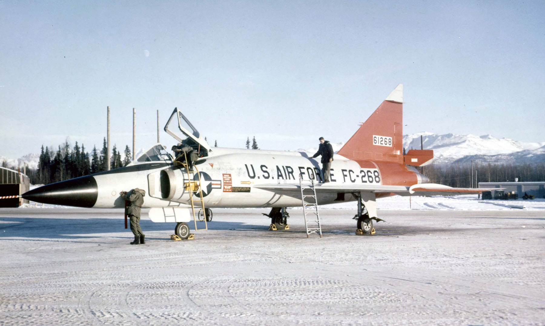 A Convair F-102A of the 31st Fighter-Interceptor Squadron at Elmendorf AFB, Alaska in January 1958